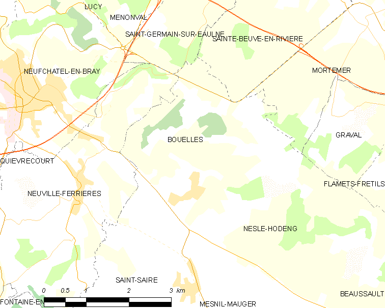 Map of French municipality Bouelles